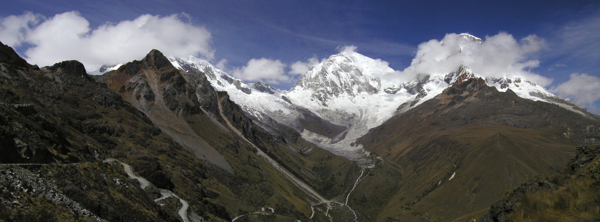 Fotografía del Nevado Huascarán ubicado en Ancash